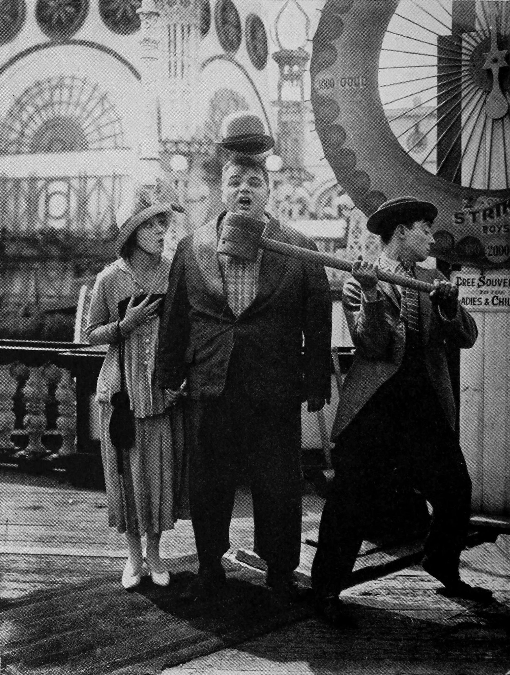 Alice Mann, Roscoe Arbuckle, and Buster Keaton in Coney Island